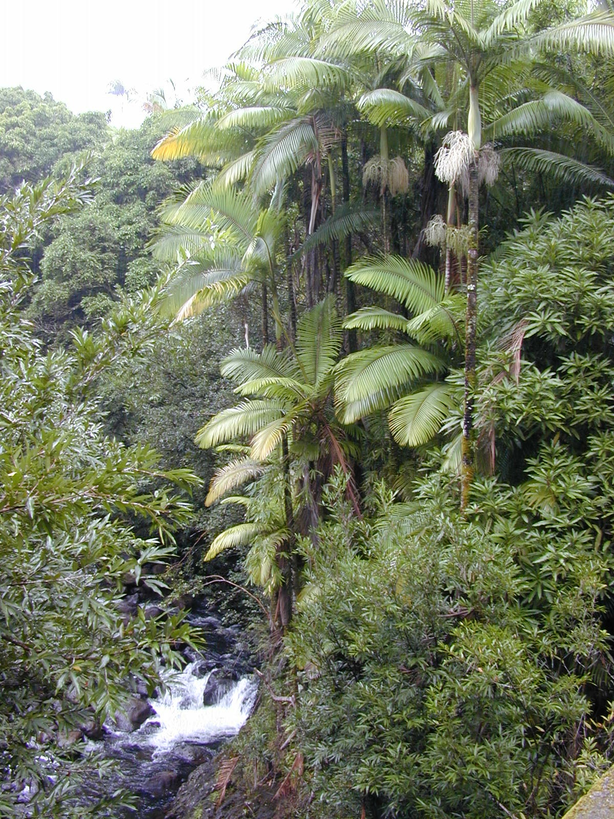 Archontophoenix alexandrae (habit in stream). Location: Hawaii, Onomea